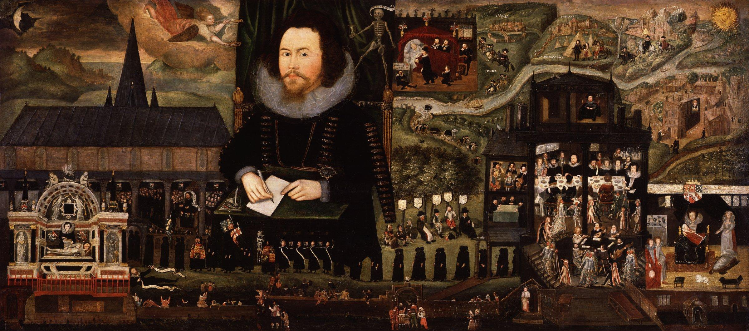 Sir Henry Unton, by unknown artist. All images in this batch are listed as "unknown author" by the NPG, who is diligent in researching authors, and was donated to the NPG before 1939 according to their website.